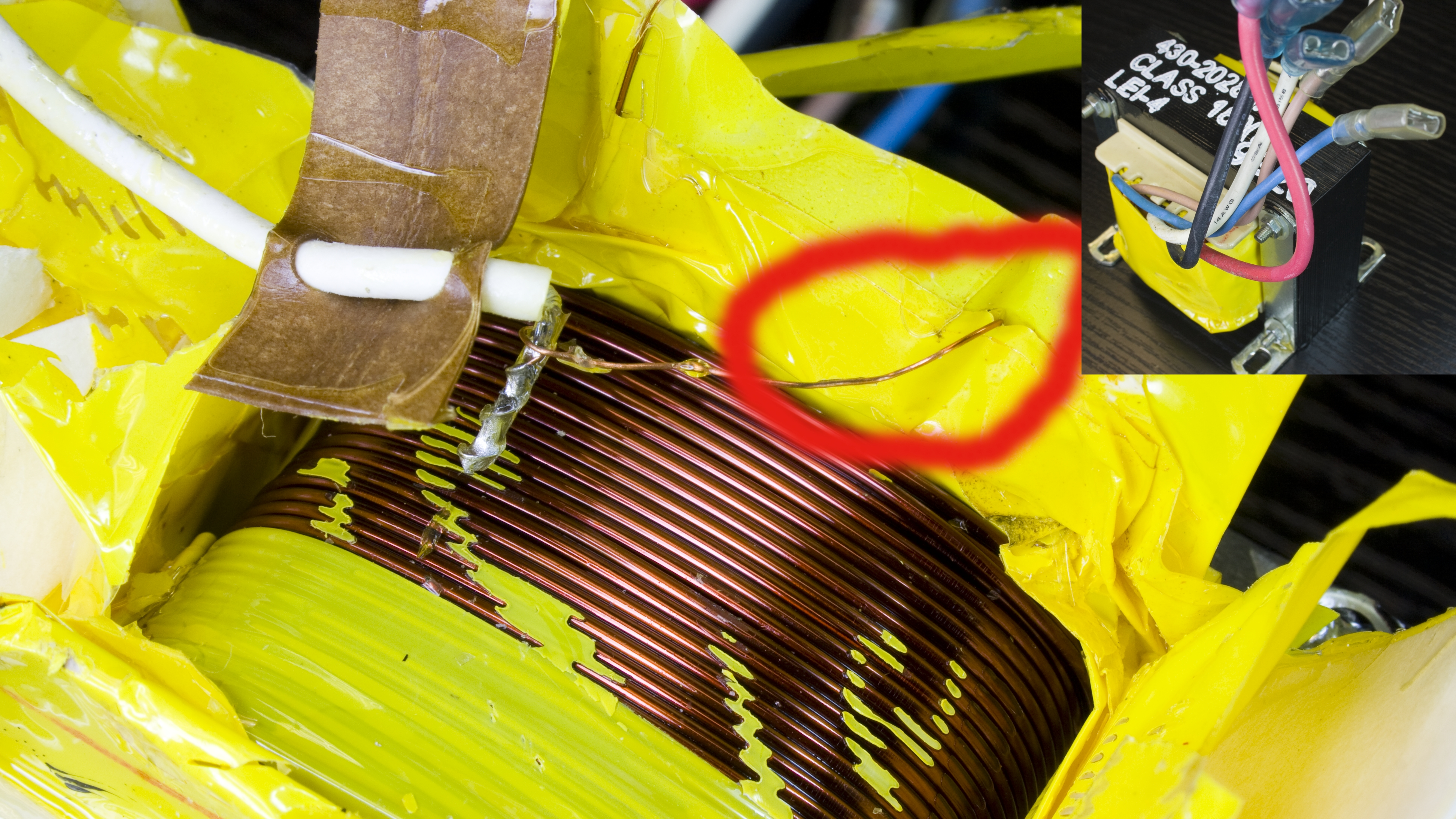 uninterruptible power supply